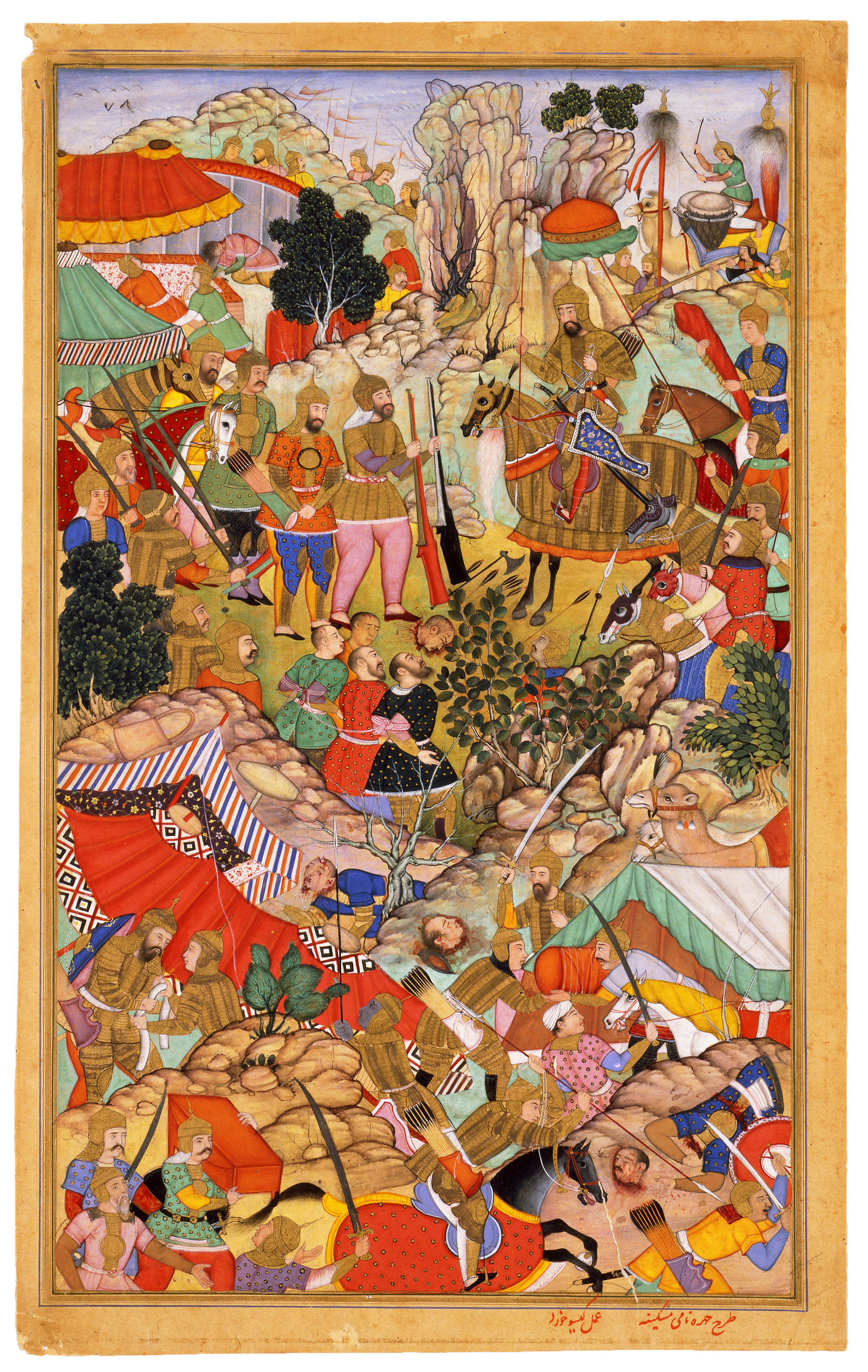 Miskin._Tayang Khan Presented with the Head of the Mongol Leader Ong Khan. Miniature_from_Rashid_al'Din_Jami-al-Tavarikh.35.1 × 20.9 cm._1596._The_David_Collection.